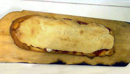 a tipical paposcia from Vico del Gargano, Apulia